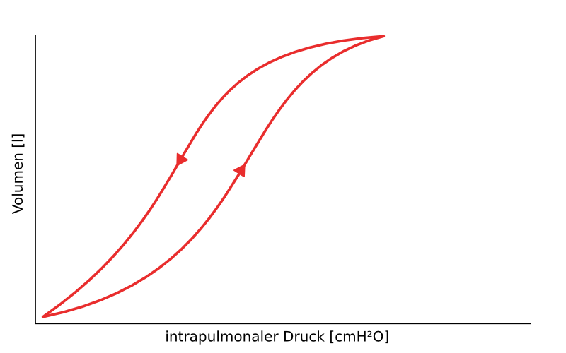 Hysteresis of lung